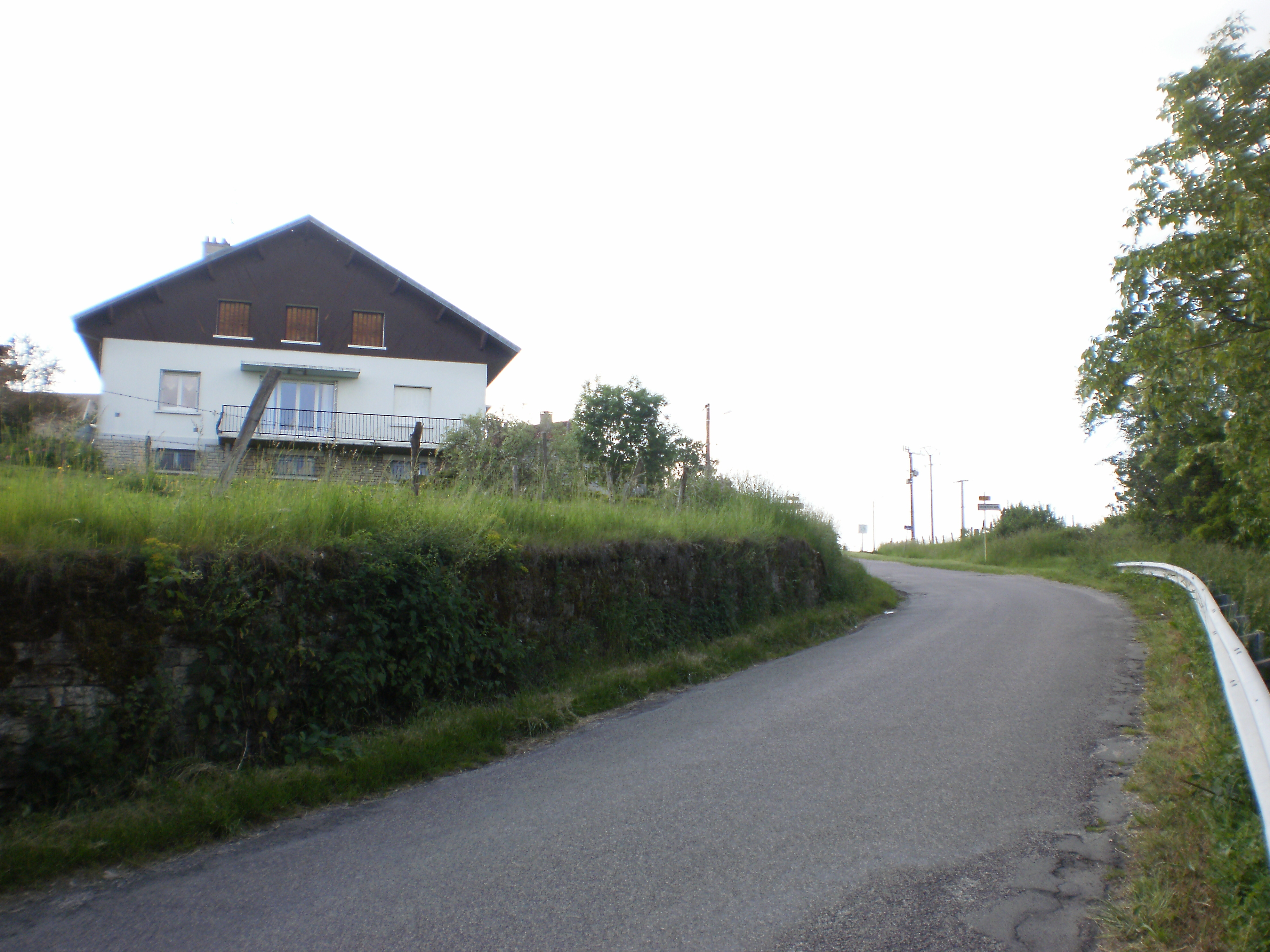 Monteplain southern entrance